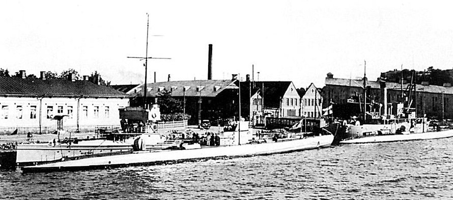 Finnish submarines Vetehinen and Vesihiisi ready to leave from Crichton-Vulcan shipyard in Turku, Finland. Other ships on the foto are gunboat Klas Horn and minelayer Louhi.